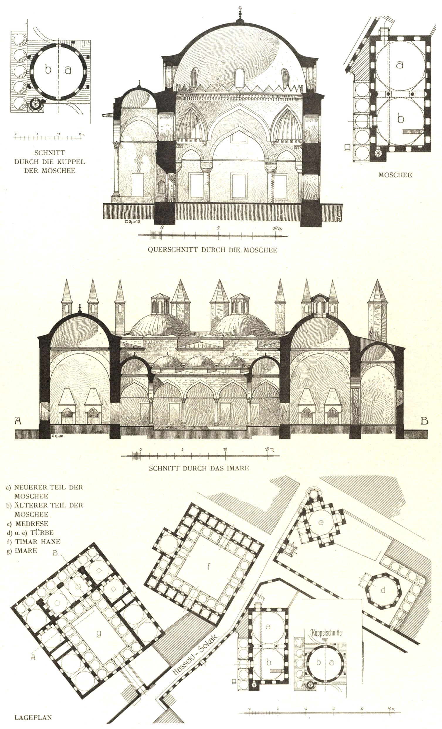 Cross-sections and plans of the Haseki Sultan Complex, Istanbul, Turkey. The complex also included a hospital (Darüssifa) but it is not shown on the plan.